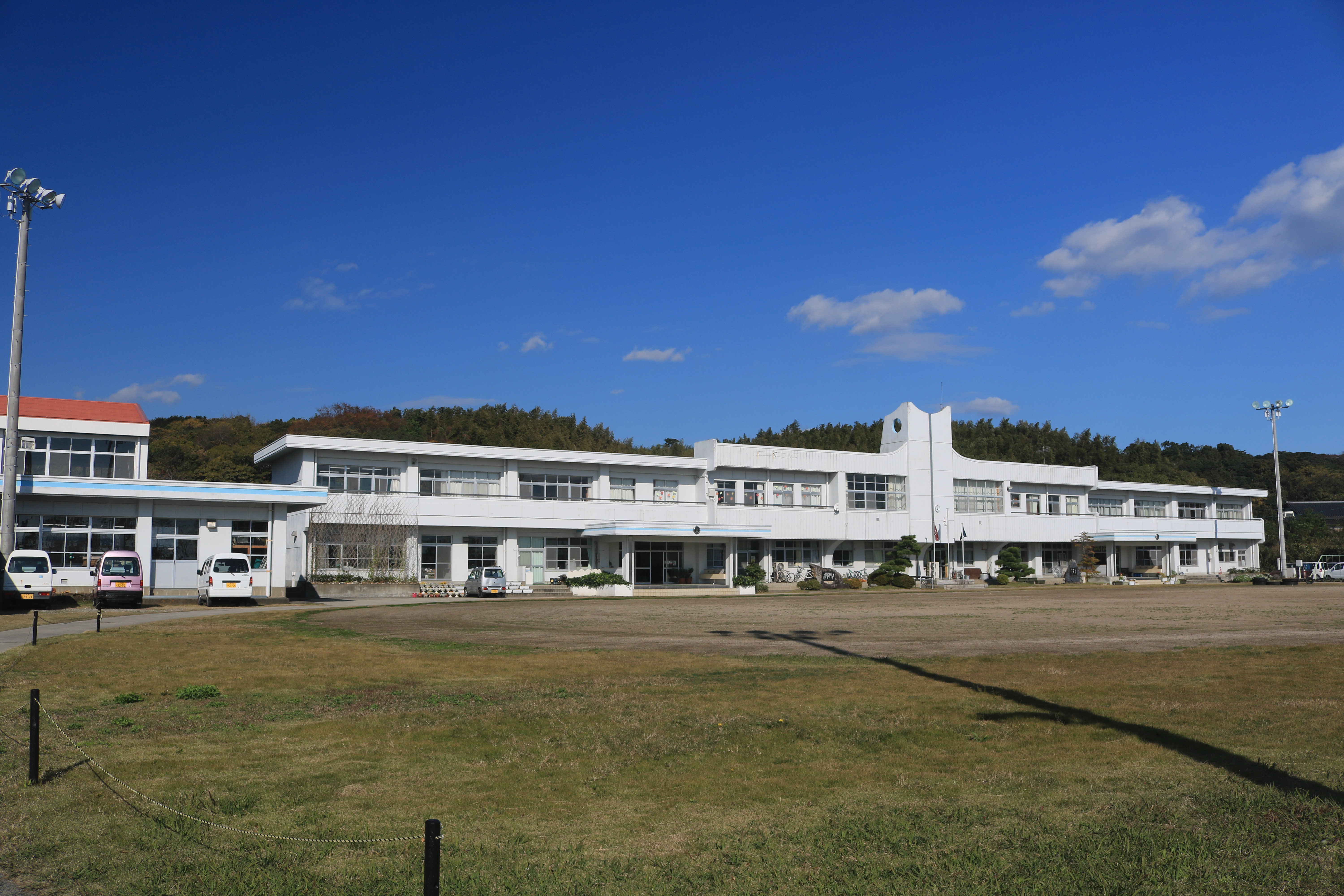 Sakushima Elementary school and Junior high school in Kagenashi, Sakushima, Isshikicho, Nishio, Aichi prefecture, Japan.